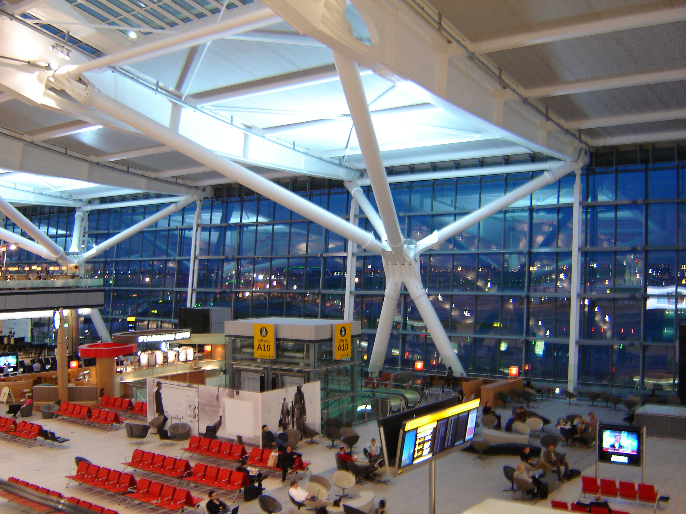 Terminal 5 interior, airside departures waiting area.